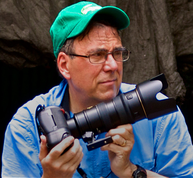 Professor Steve Raymer in India